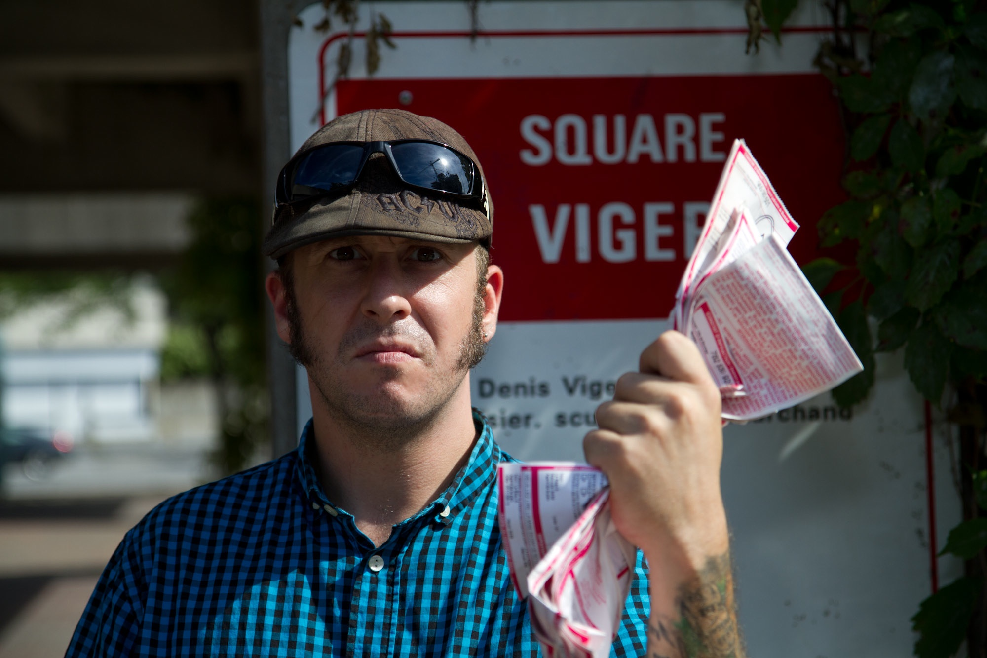 Roachpicsforticketsposter-8